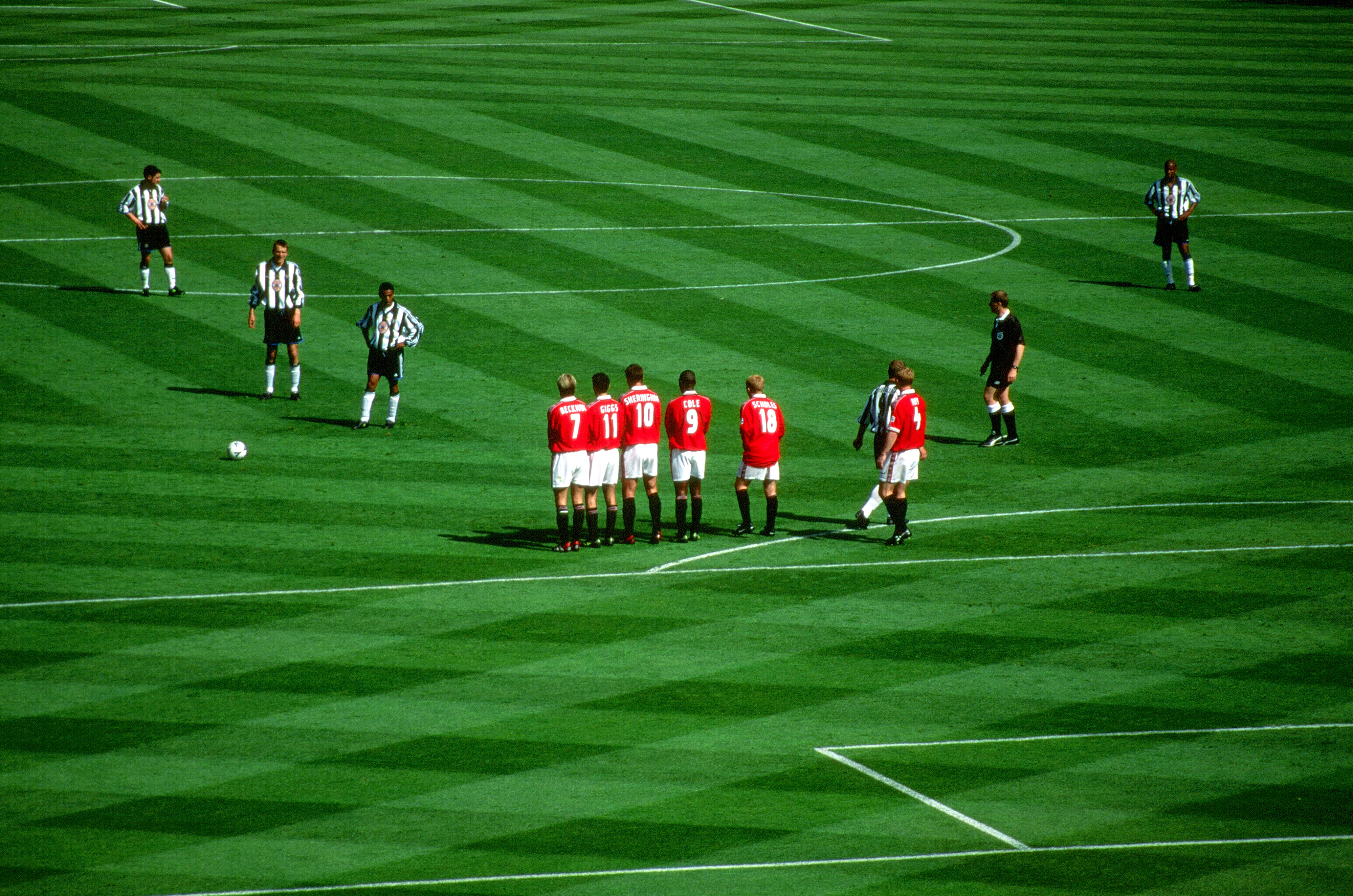 Newcastle United midfielder Nolberto Solano prepares to take a free kick on the edge of the Manchester United penalty area in the 1999 FA Cup Final at Wembley Stadium on 22 May 1999